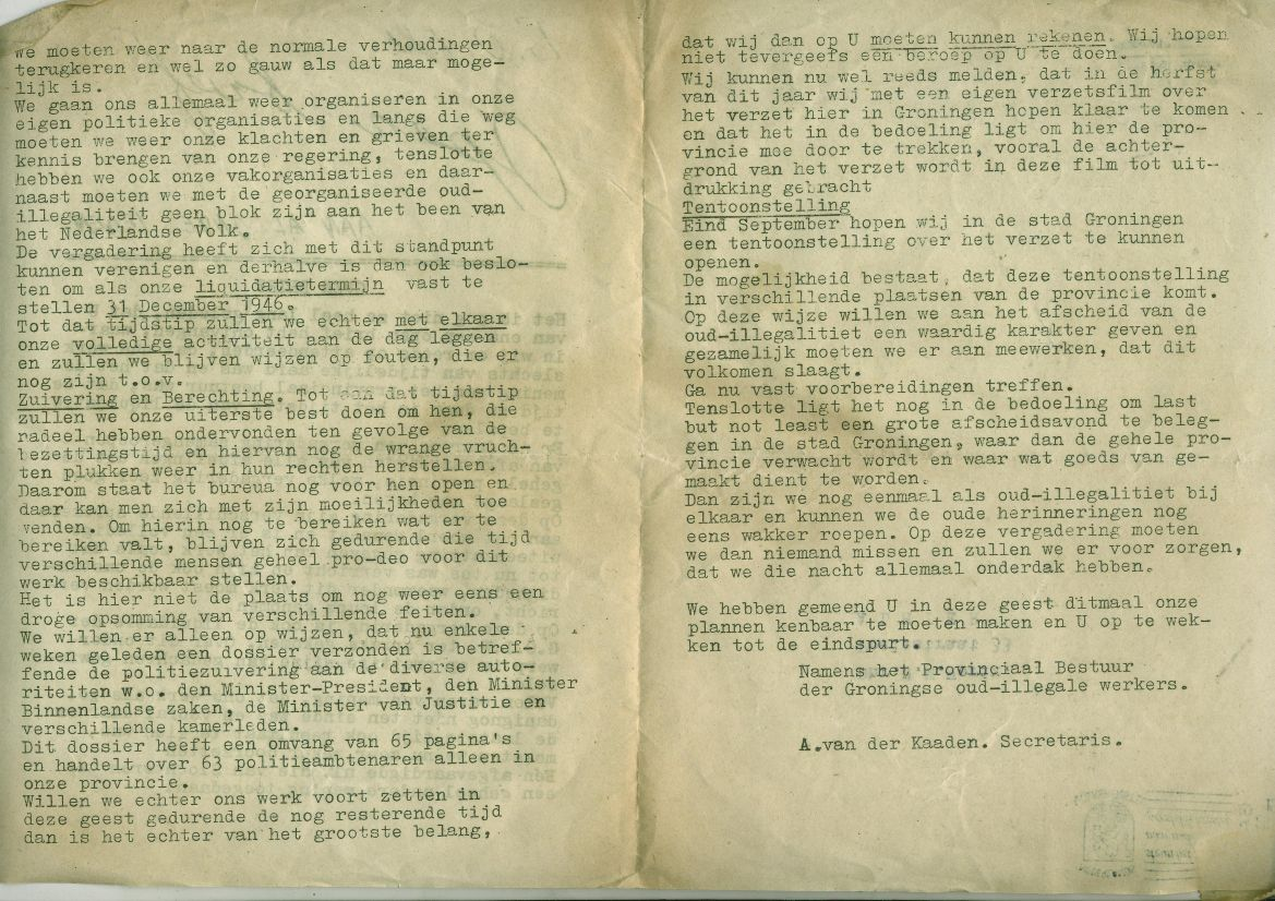 Open letter in Dutch about the liquidation of the GOIW (association of former illegal workers), Groningen division, second page. Continues from File:Opheffing-A.jpg.